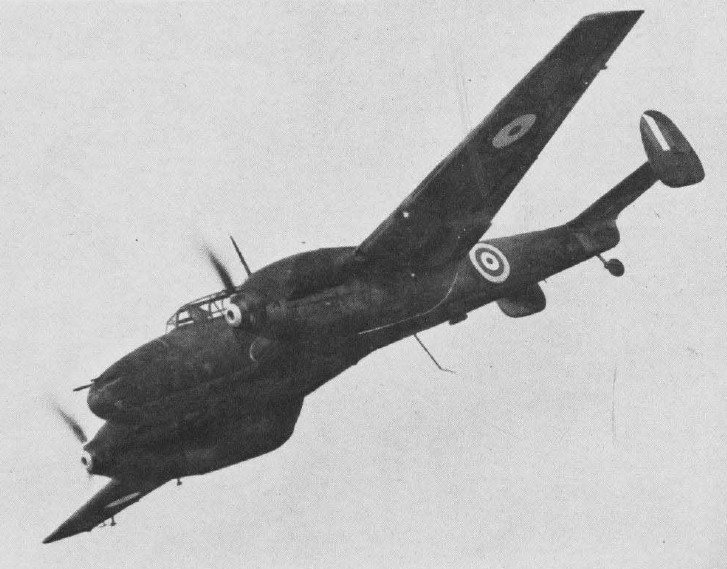 A Messerschmitt Bf 110 C-5 (c/n 2177) in flight, probably in 1941-42. This aircraft belonged to the German Luftwaffe reconnaissance unit 4.(F)/14 (code 5F+CM) and was force-landed by gun-fire at Goodwood (UK) on 21 July 1940. It was repaired at Royal Aircraft Establishment Farnborough with parts of another Bf 110 that was shot down near Wareham on 11 July 11. It was flown for the first time on 15 February 1941. Later it was tested at RAE Duxford wearing a new colour scheme and the RAF serial AX772. After the trials the aircraft assigned to No. 1426 Squadron. It was stored in November 1945 and subsequently scrapped in November 1947.